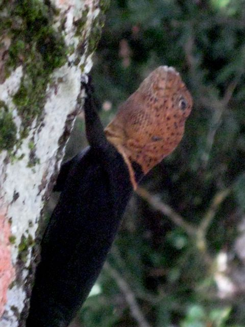 A sexually mature male Tropical Thorntail Iguana (Amazon Thorntail Iguana) in the Iquitos region of Peru.